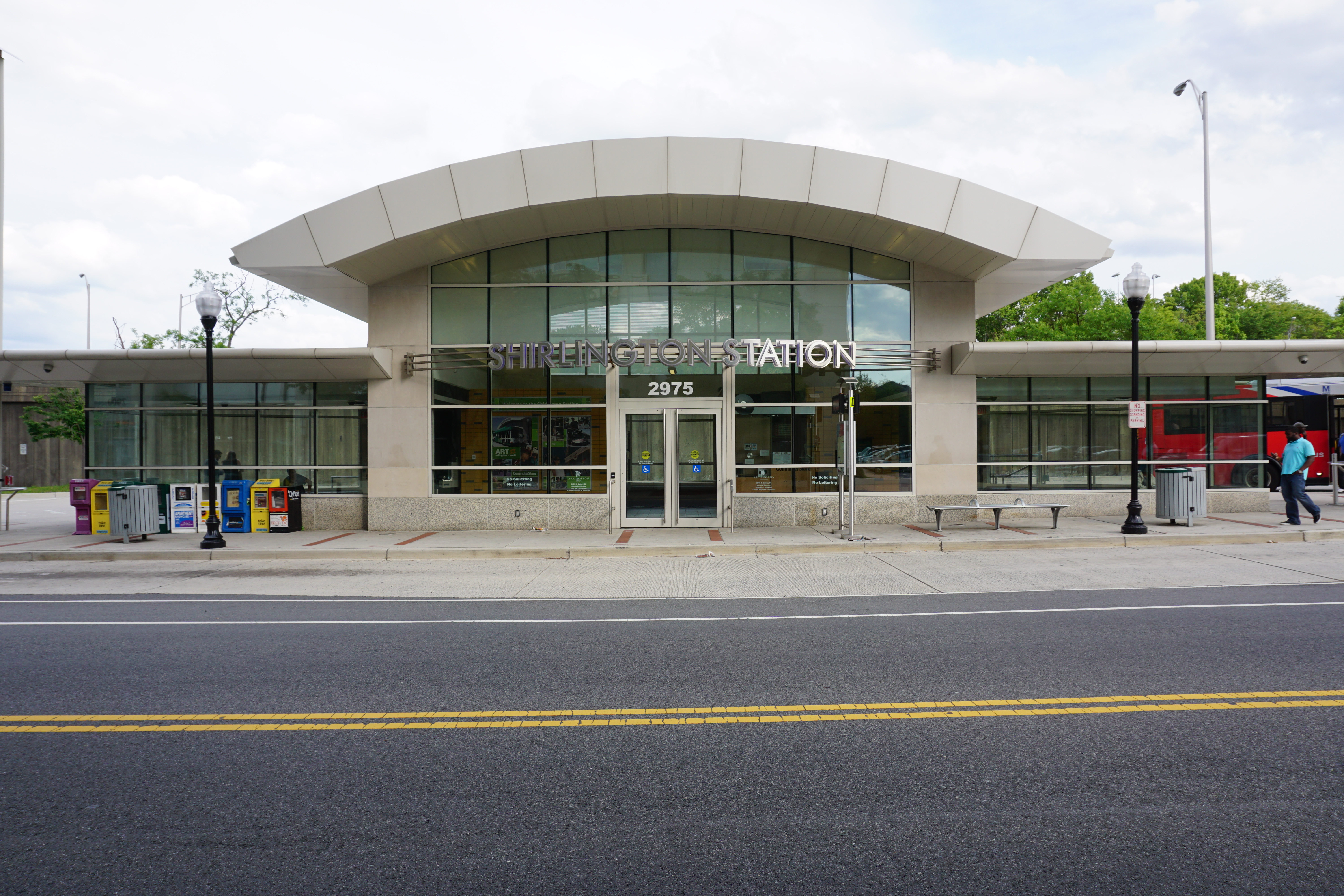 Shirlington Bus Station. Located at 2975 South Quincy Street, Arlington, Virginia.